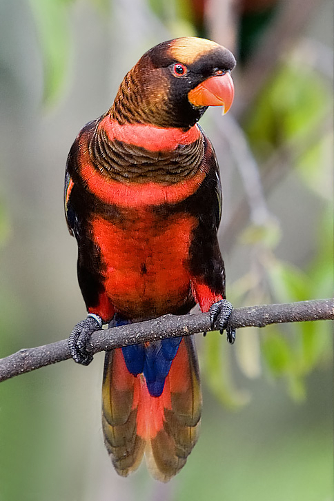 Dusky Lory (orange phase) at Jurong Bird Park, Singapore.